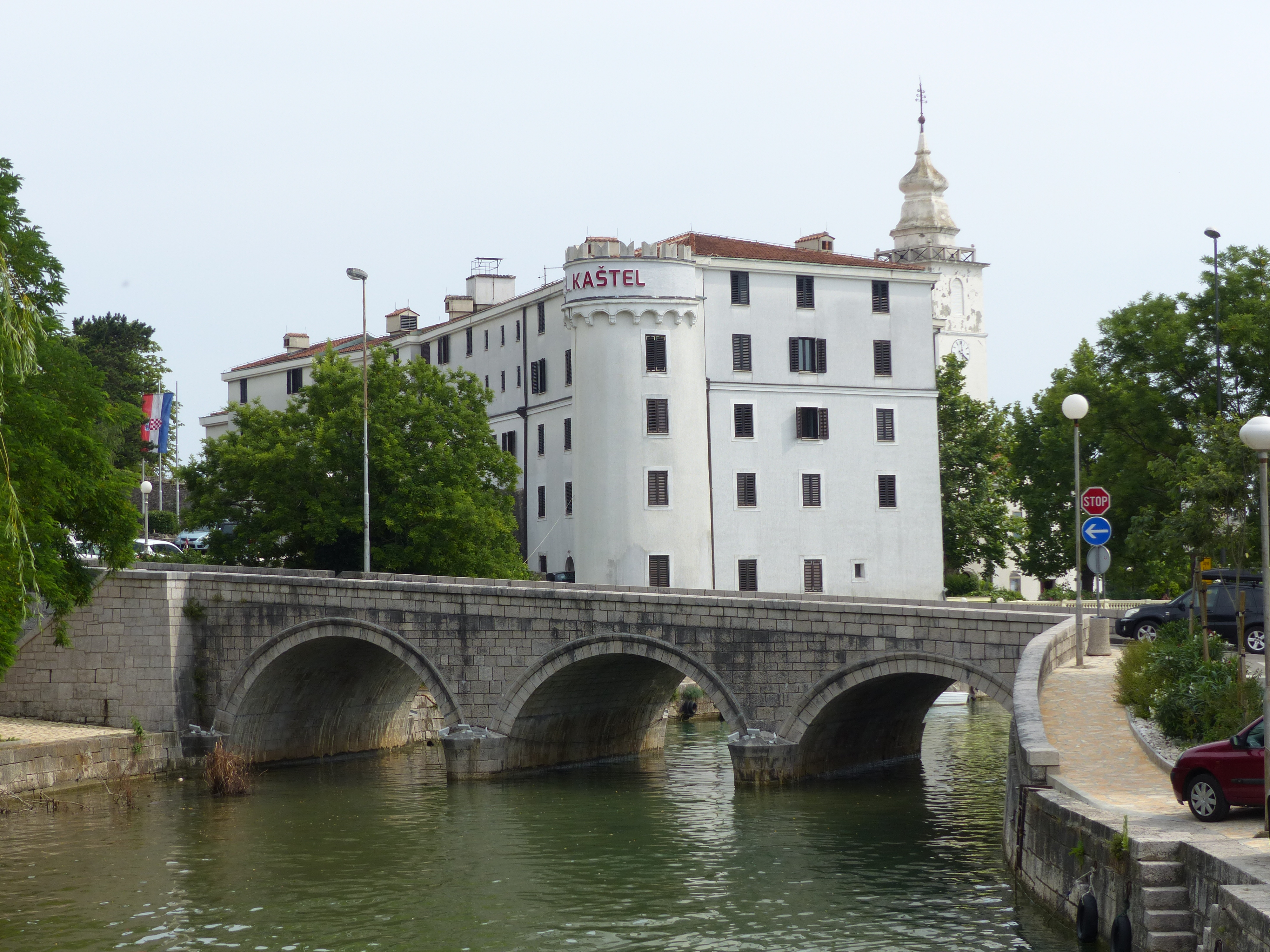 1412-ben Frangepán Miklós kolostort építtetett, ahova pálos szerzeteseket hívott. Frangepán Miklós 1426 és 1432 között dalmát-horvát bán. Luxemburgi Zsigmond magyar király híve. A város keleti szélén a tenger és a Dubračina között áll. A Dubračina torkolatánál álló Szűz Mária-templomocska mellett. Built in 1412 by Frangepán Miklós (nominated as bán, by the Hungarian King in the period 1426-1432) as a monastery for the Pauline order, the only christian order by erected by Hungarians. (Ordo Fratrum Sancti Pauli Primi Eremitae). The Pauline Order possessed the monastery until 1786, when it was forbidden. From this time this was the seat of the Vinodoli Captaincy. Tags:Pauline Order (Hungary), Ordo Fratrum Sancti Pauli Primi Eremitae Miklós Fragepán Zsigmond Luxemburgi Dubračina Vinodoly Captaincy